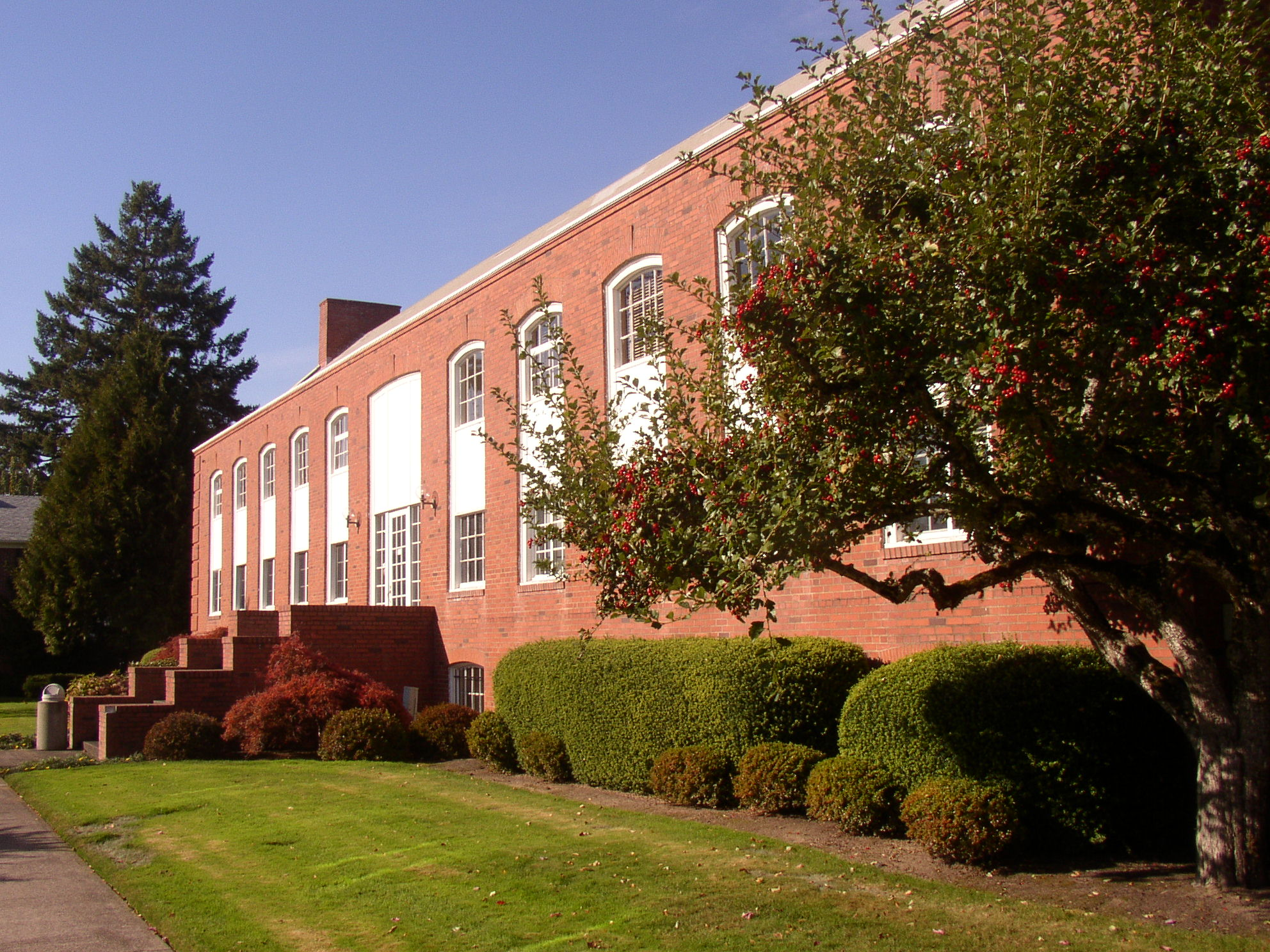 Northup Hall at Linfield College, McMinnville, Oregon